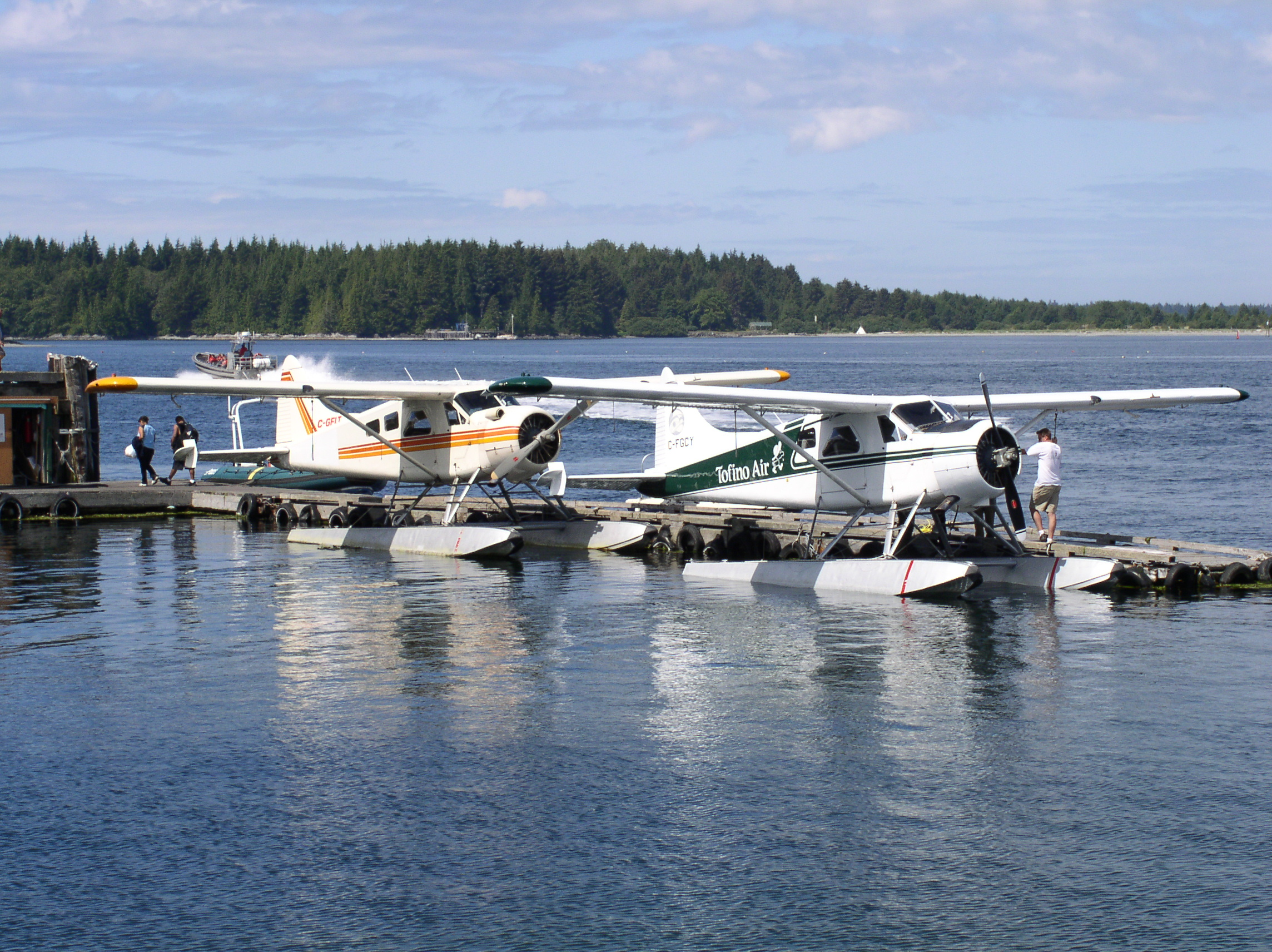 Seaplanes in Tofino, BC